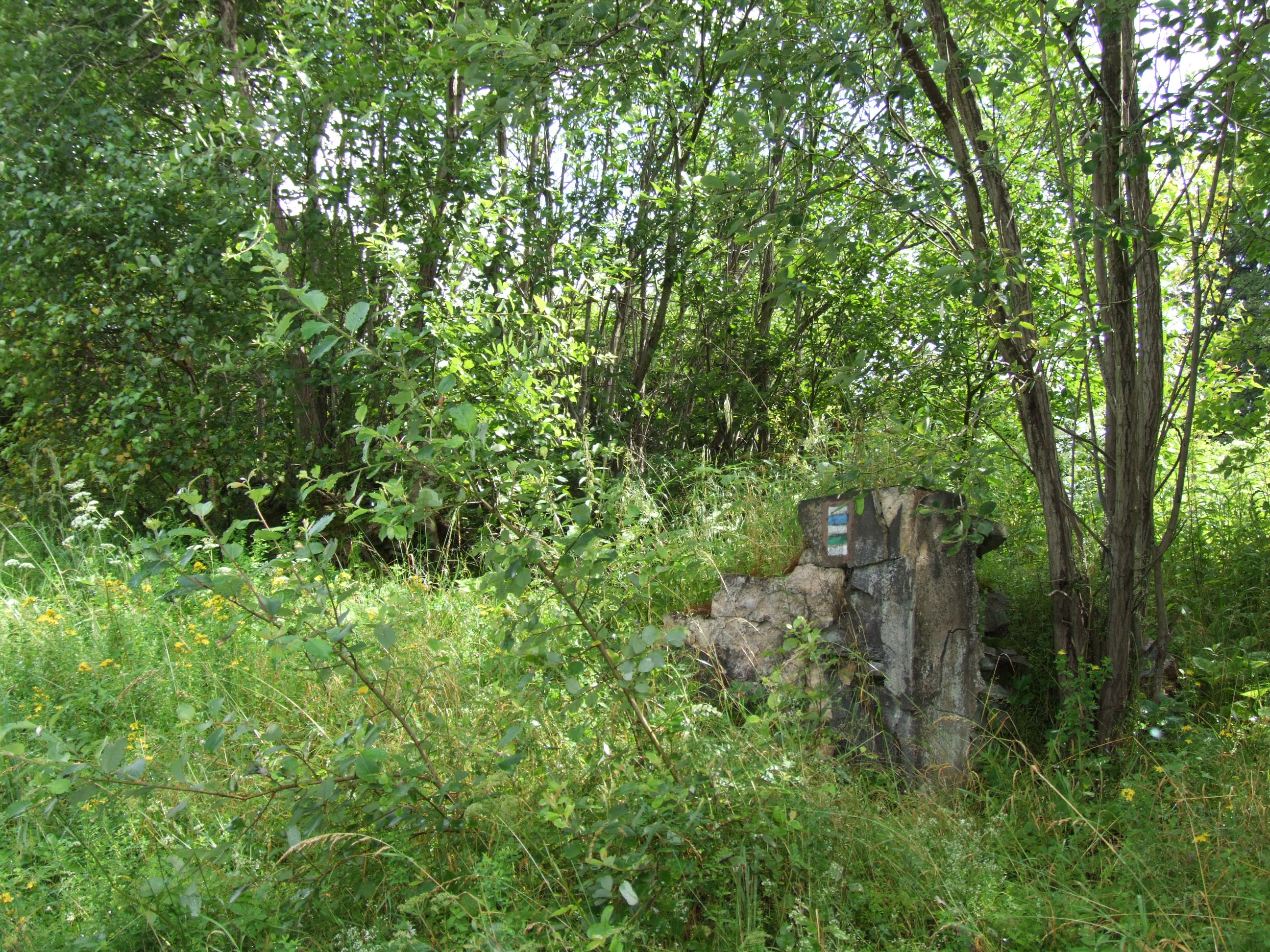 "Rudolfsheim"-riuns in the Opawskie Mountains